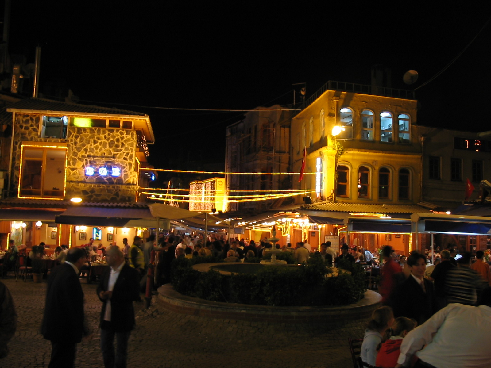 Kumkapı